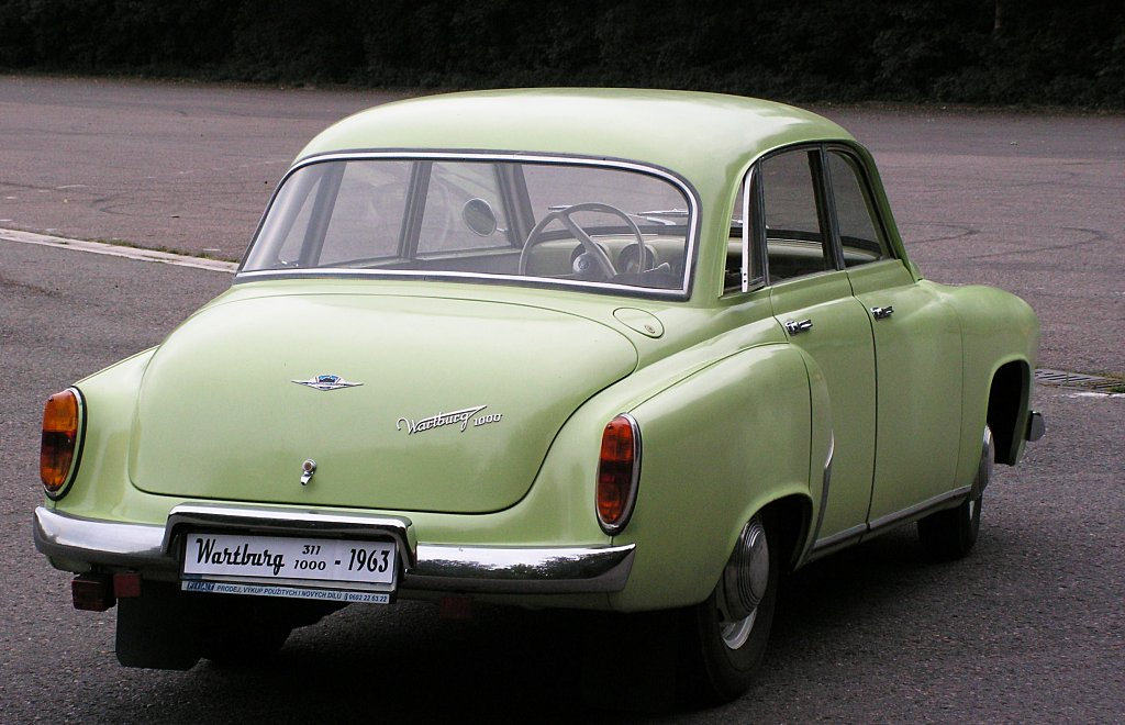 Wartburg model 311 - 1000 from year 1963